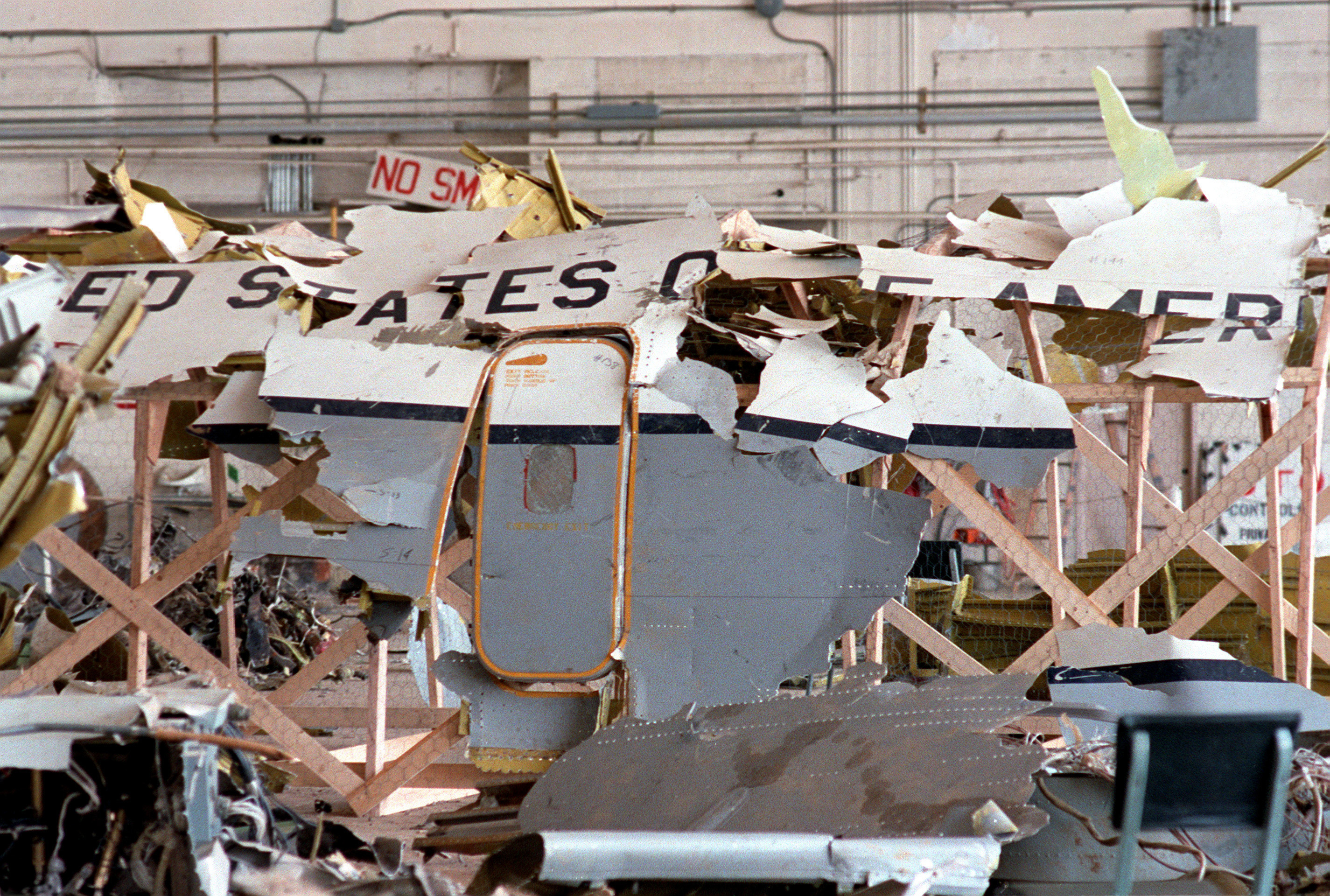 Arranged parts from the crashed Boeing EC-135N ARIA 61-0328. Andrews AFB. Original caption: A view of the crashed EC-135N Stratolifter aircraft inside the hangar. All 21 people on board were killed. The cause was ruled as mechanical failure.